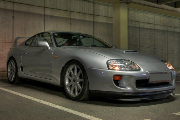 Toyota Supra with aktiv frontlip